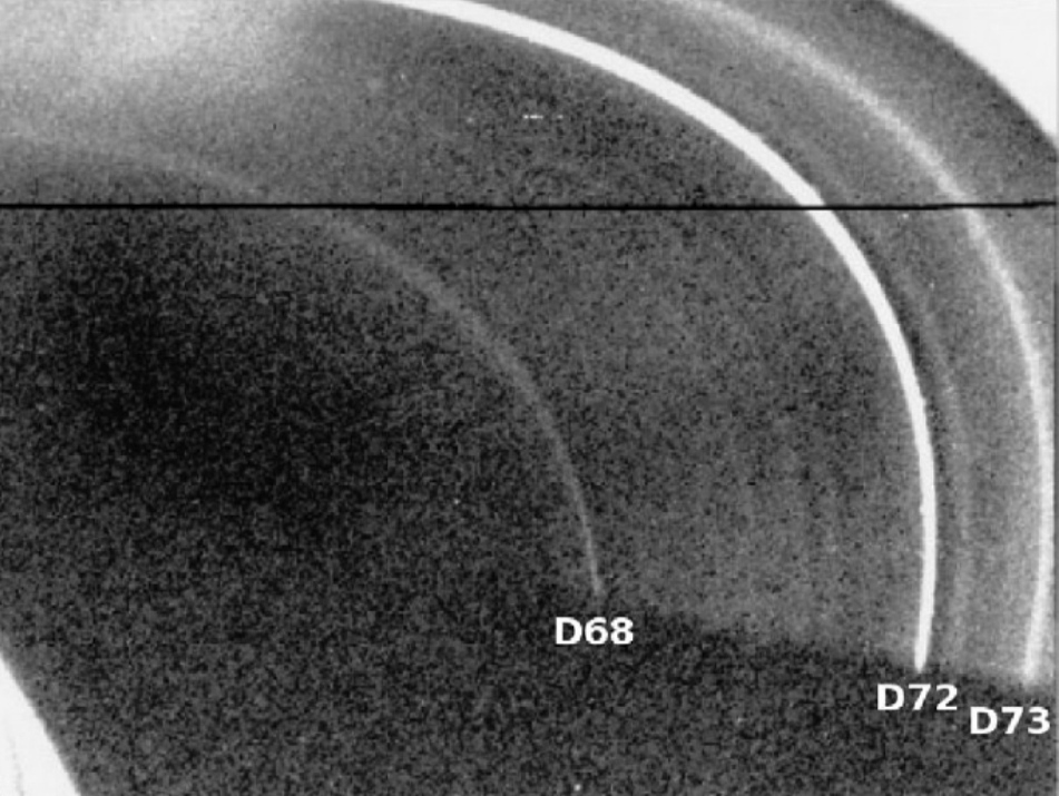 This images shows the ringlets of the D ring of Saturn observed by the Voyager 2 spacecraft during its flyby of the planet in 1980